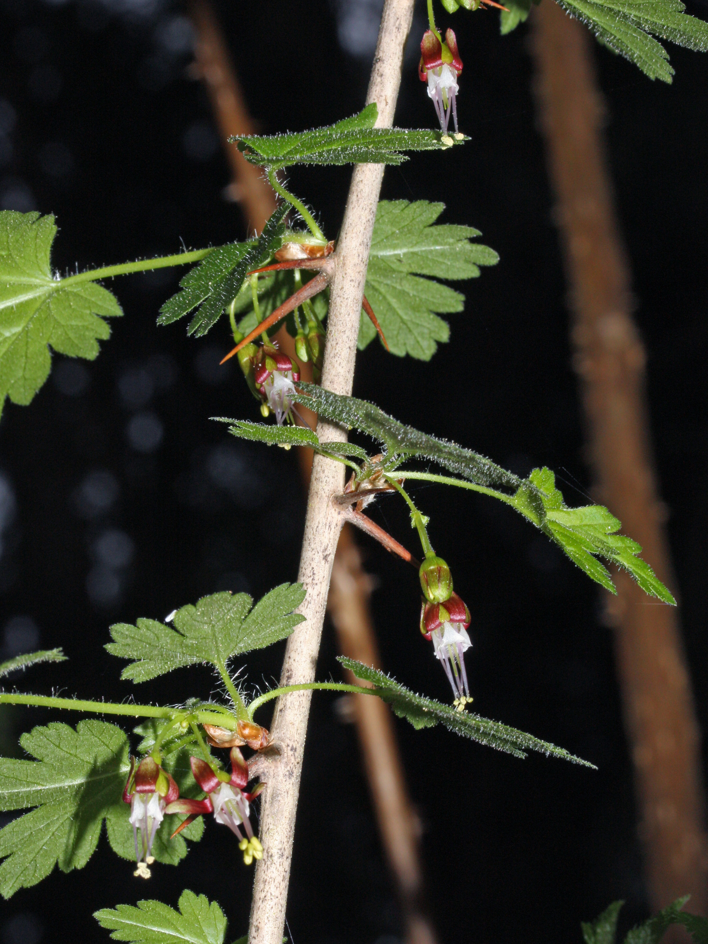 Spreading Gooseberry, Coast Black Gooseberry